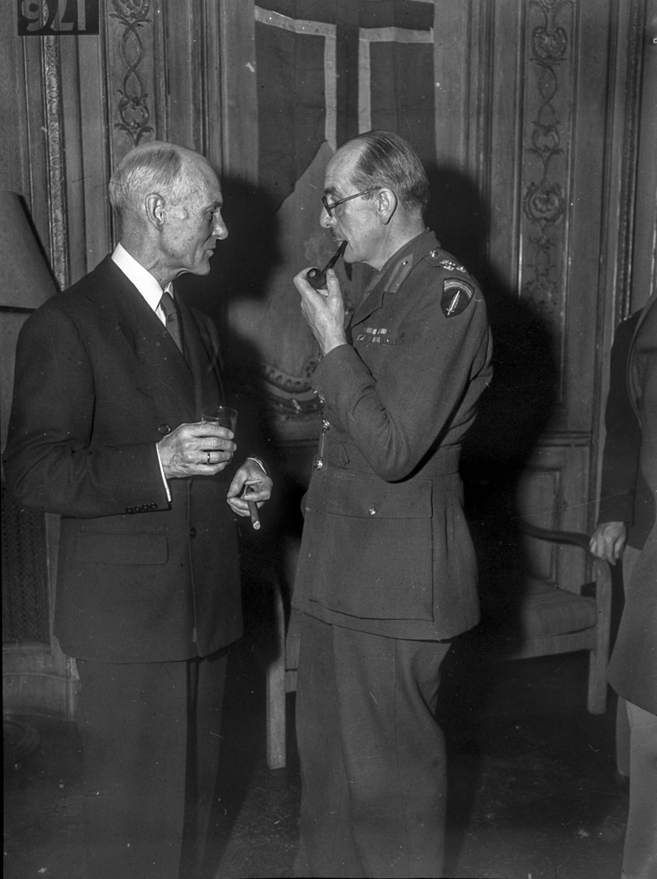 Photos from Flickr album "Evakueringen og frigjøringen av Finnmark" (The Evacuation and Liberation of Finnmark, 2015) ny Riksarkivet (National Archives of Norway). Towards the end of World War II, with Operation Nordlicht, the Germans used the scorched earth tactic in Finnmark and northern Troms to halt the Red Army. As a consequence of this, few houses survived the war, and a large part of the population was forcefully evacuated further south (Tromsø was crowded), but many people avoided evacuation by hiding in caves and mountain huts and waited until the Germans were gone, then inspected their burned homes. There were 11,000 houses, 4,700 cow sheds, 106 schools, 27 churches, and 21 hospitals burned. There were 22,000 communications lines destroyed, roads were blown up, boats destroyed, animals killed, and 1,000 children separated from their parents. However, after taking the town of Kirkenes on 25 October 1944 (as the first town in Norway), the Red Army did not attempt further offensives in Norway. The town was handed over to Norway as the war ended. When war was over, more than 70,000 people were left homeless in Finnmark. The government imposed a temporary ban on residents returning to Finnmark because of the danger of landmines. The ban lasted until the summer of 1945 when evacuees were told that they could finally return home.